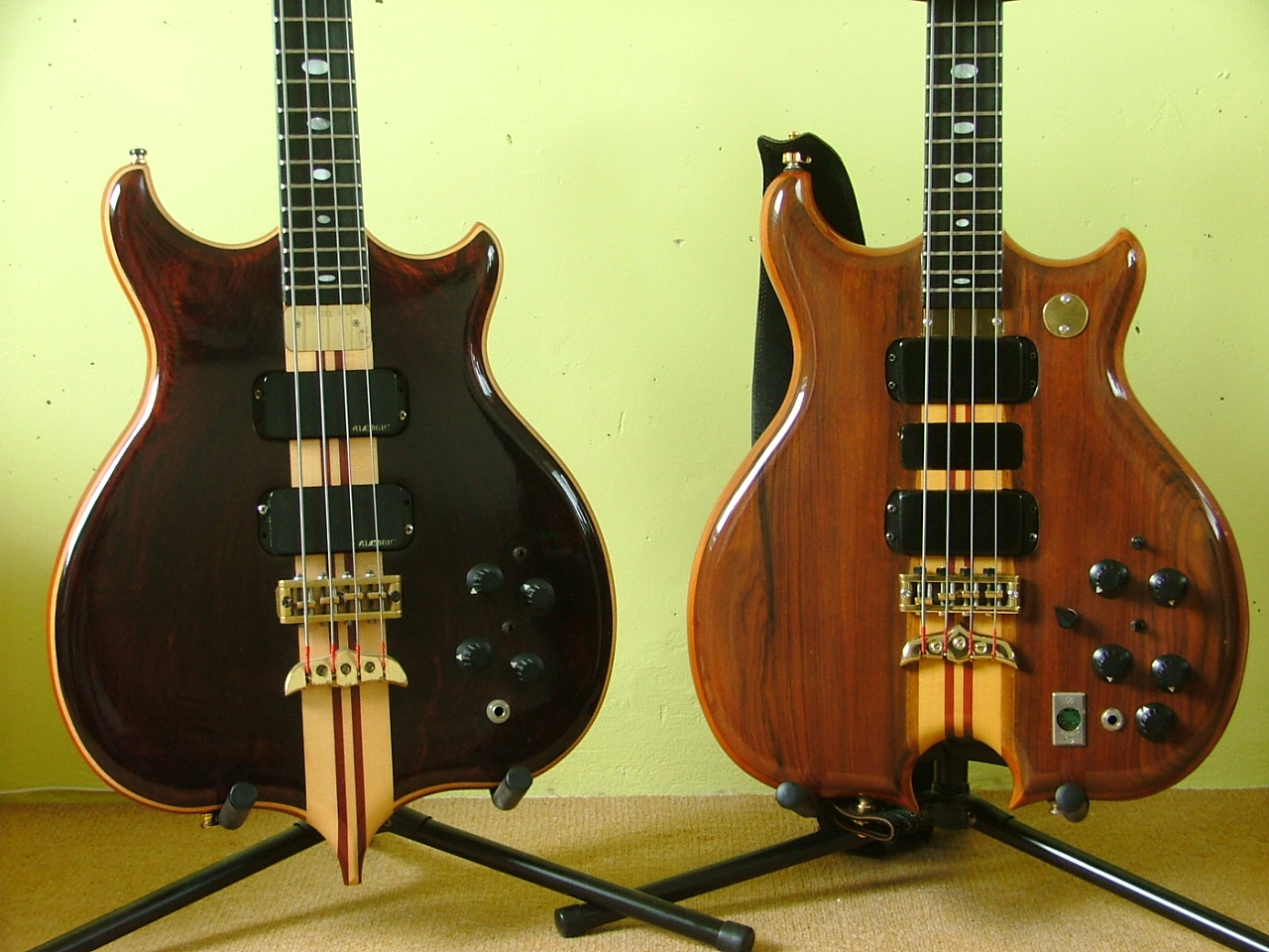 Example of an Alembic with a Standard point body shape and an Alembic with an Omega body shape.